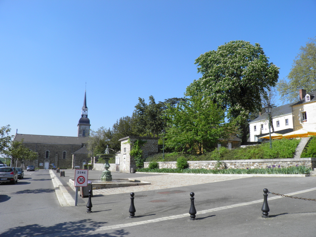 Church and town hall square in Port-Brillet, Mayenne, France